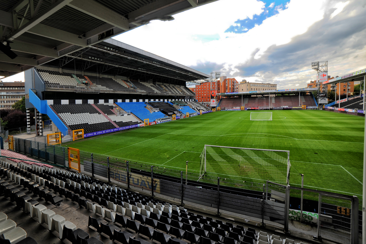 Stade du Pays de Charleroi in Charleroi, Belgium